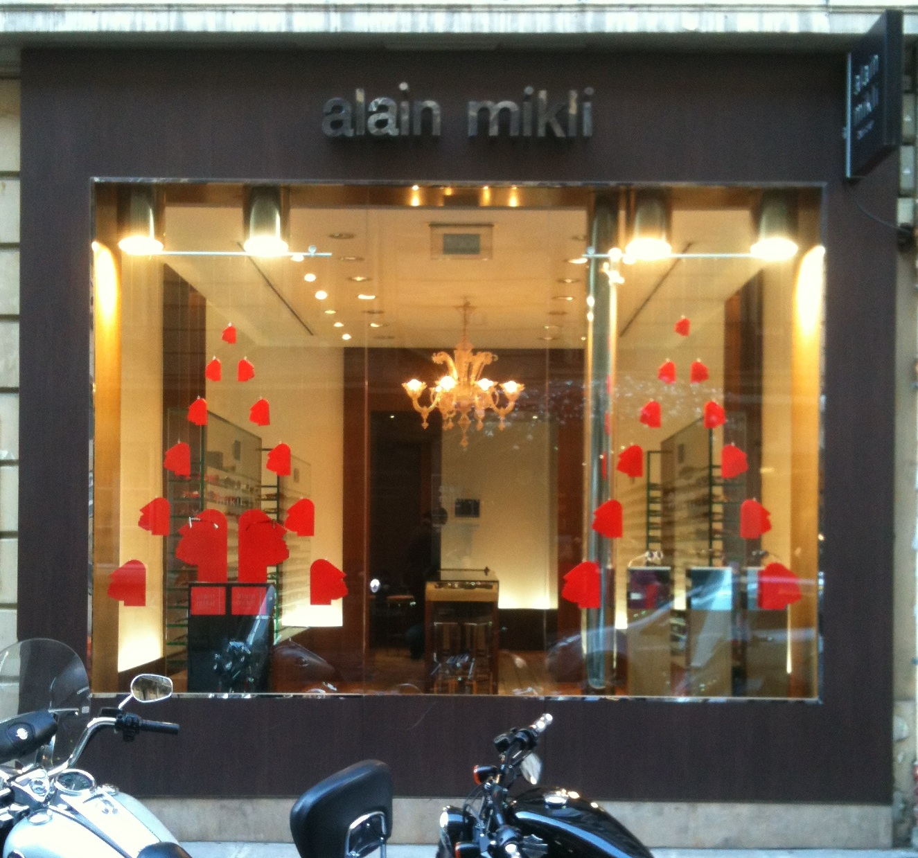 Alain Mikli Shop 74 Rue des Saints-Pères, 75007 Paris, Shop designed by Philippe Starck, Christmas decorations designed by Camille Fenninger